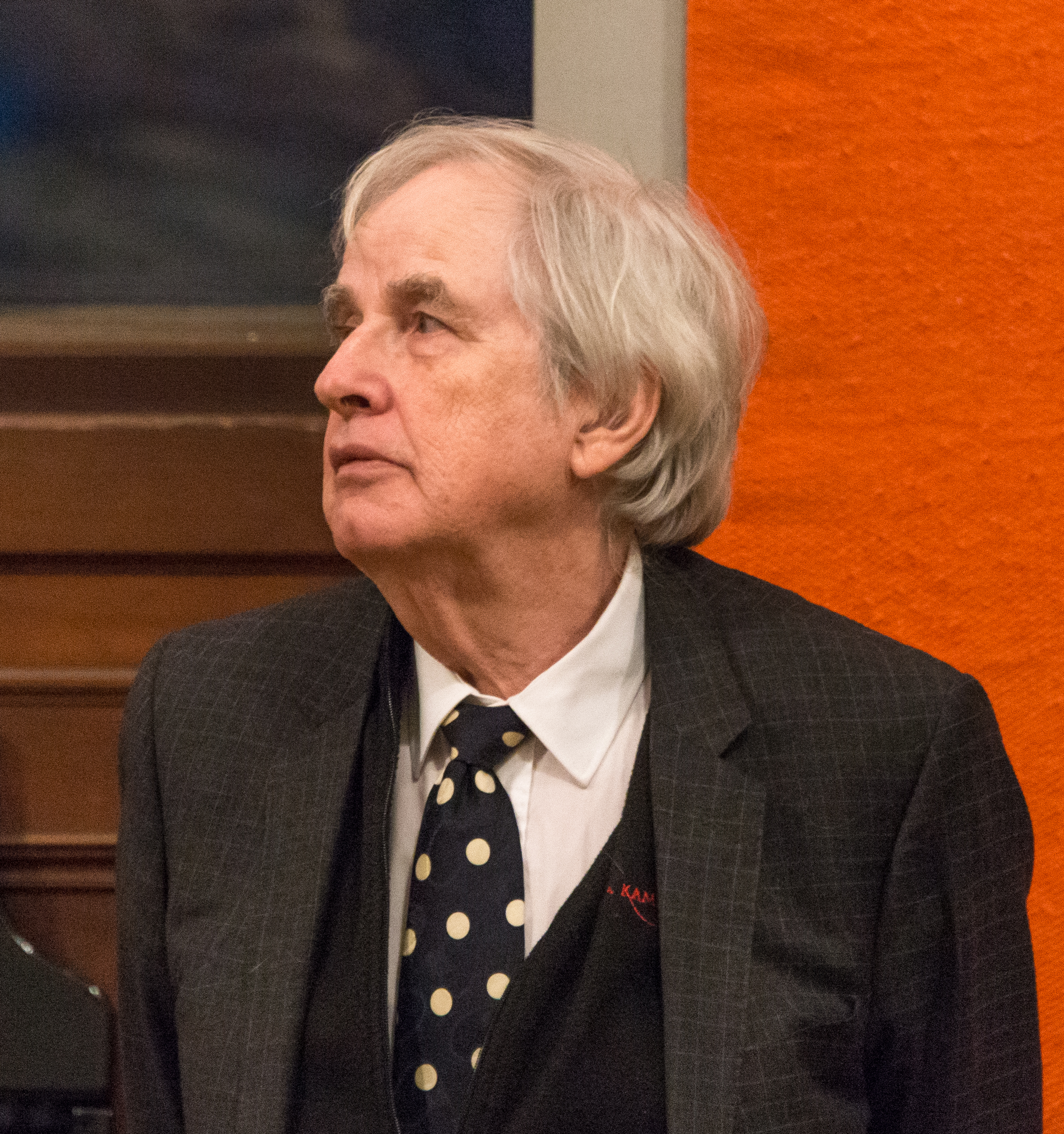 Carl-Axel Dominique during Culture Night Stockholm 2016.